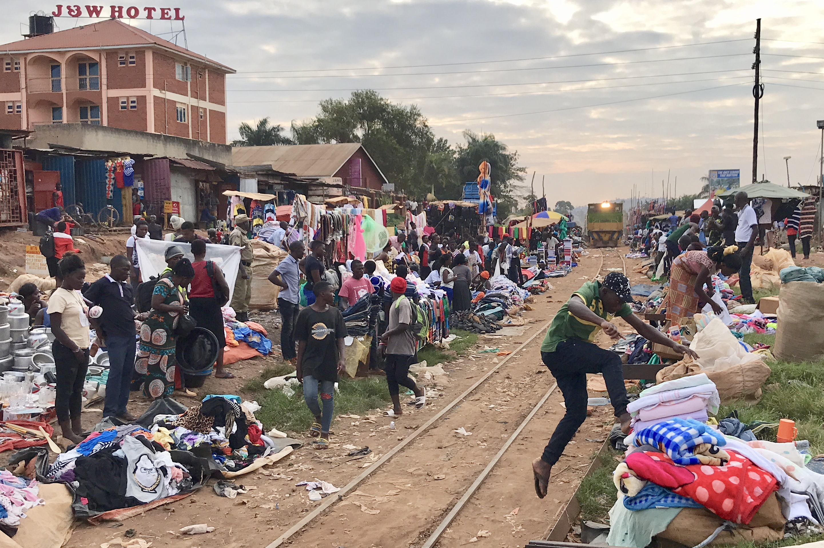 A train arrives at Kireka halt in Kampala, as traders make way for its arrival. This is an image with the theme "Africa on the Move or Transport" from: Uganda